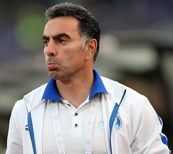 Mahmoud Fekri